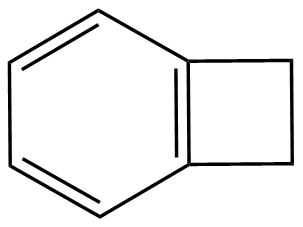 stucture of Benzocyclobutene